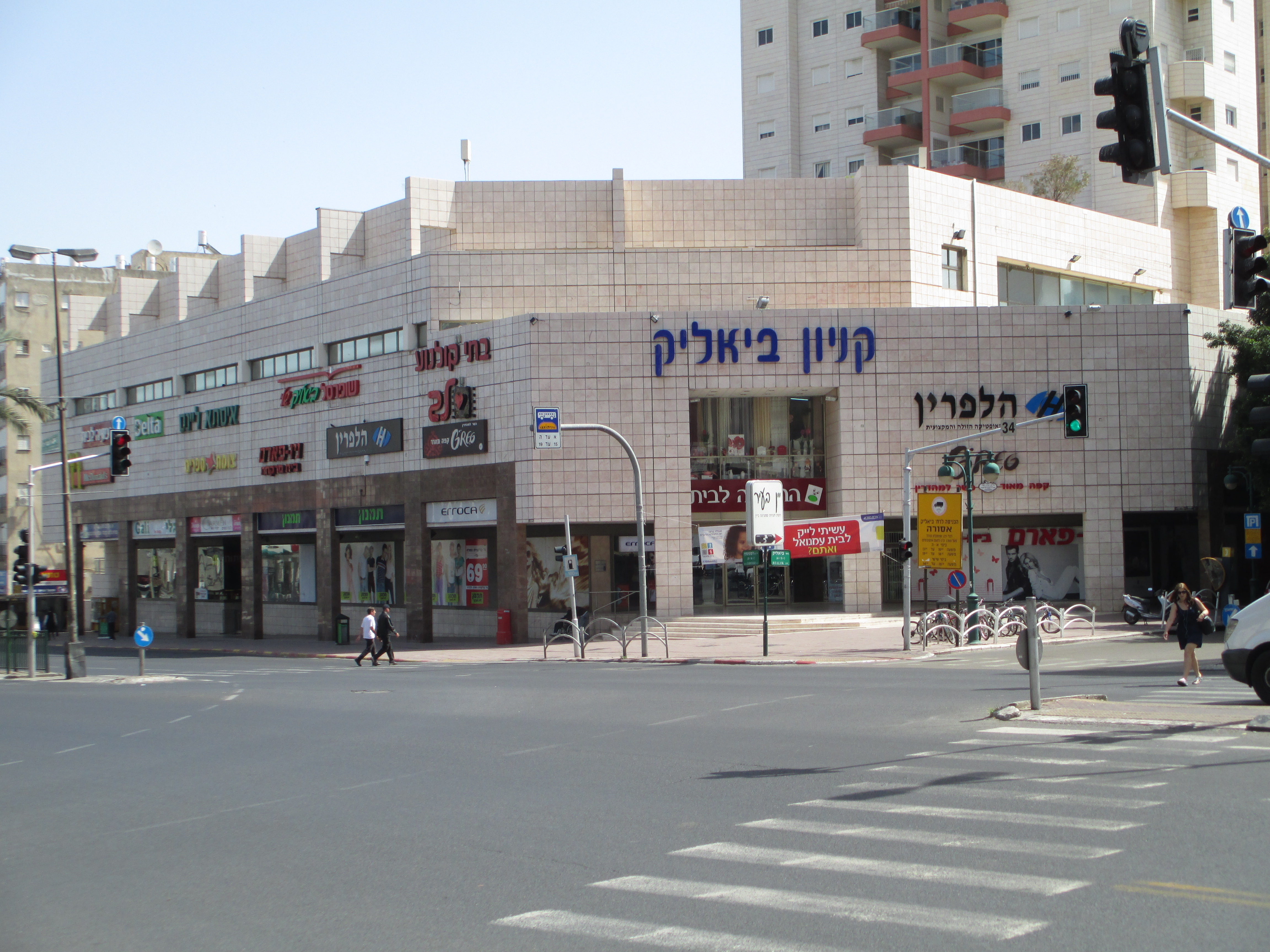 Bialik mall in Ramat Gan